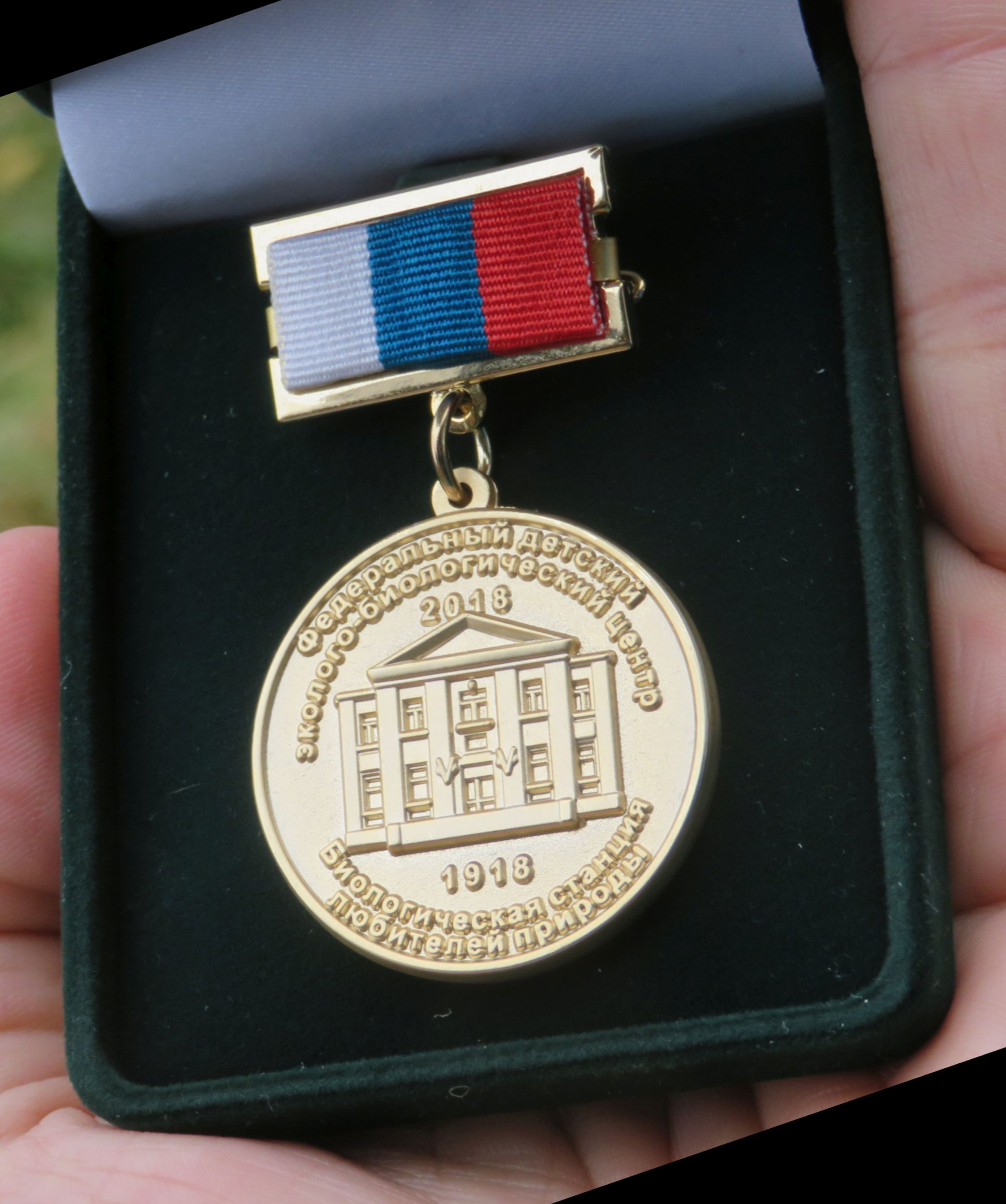 Commemorative "100 Years to the Youth Movement" award badge of the Federal Children's Ecological and Biological Center of the Ministry of Education of the Russian Federation